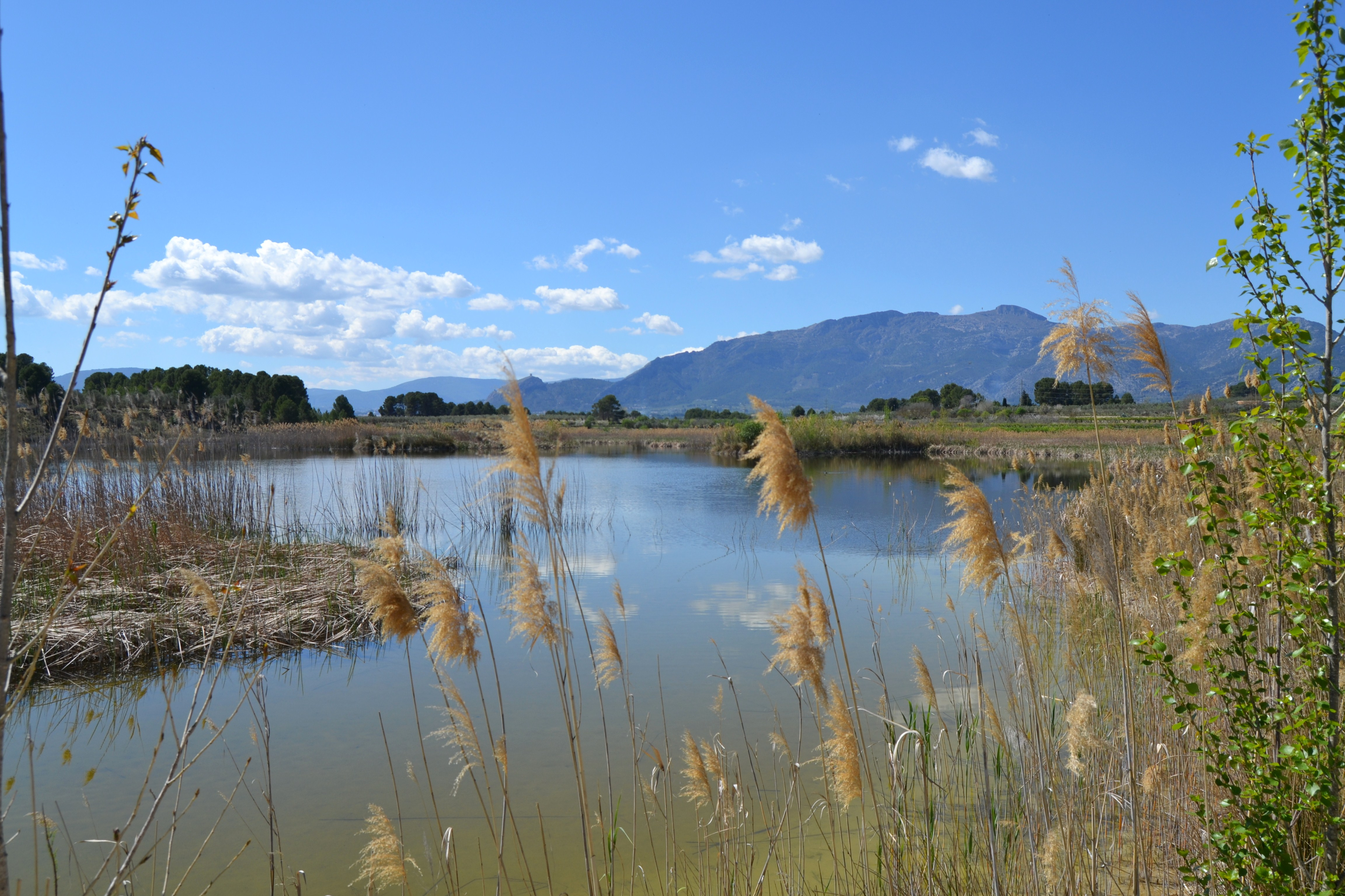 Lagoon of Gaianes, protected landscape of Serpis river This is a a photo of a natural area in the Land of Valencia, Spain, with id: ES520049